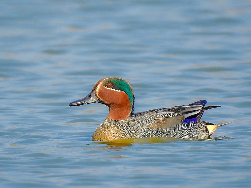 Eurasian teal (Anas crecca) from Mangaon, Raigad, Maharashtra, India Photograph by Shantanu Kuveskar